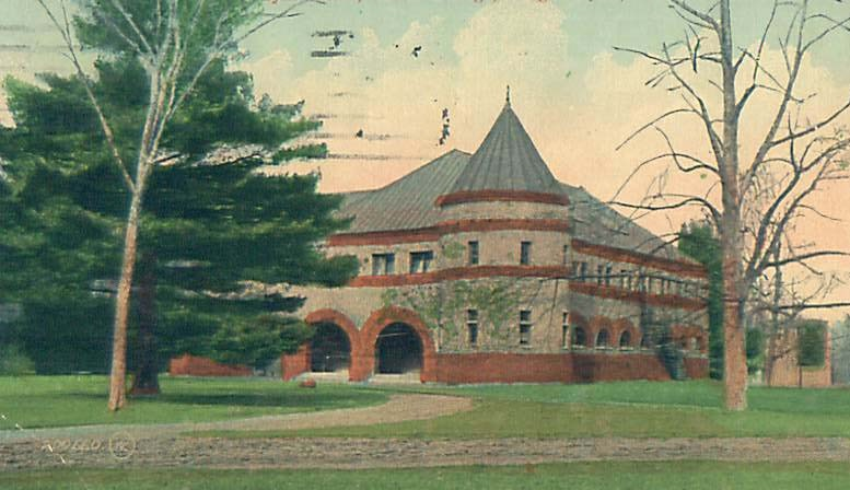 A postcard depicting Vassar College's Alumnae Gymnasium in 1913 or before.